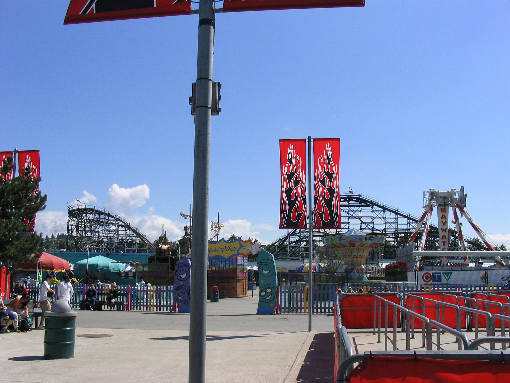 Picture of Kids Playce at Playland